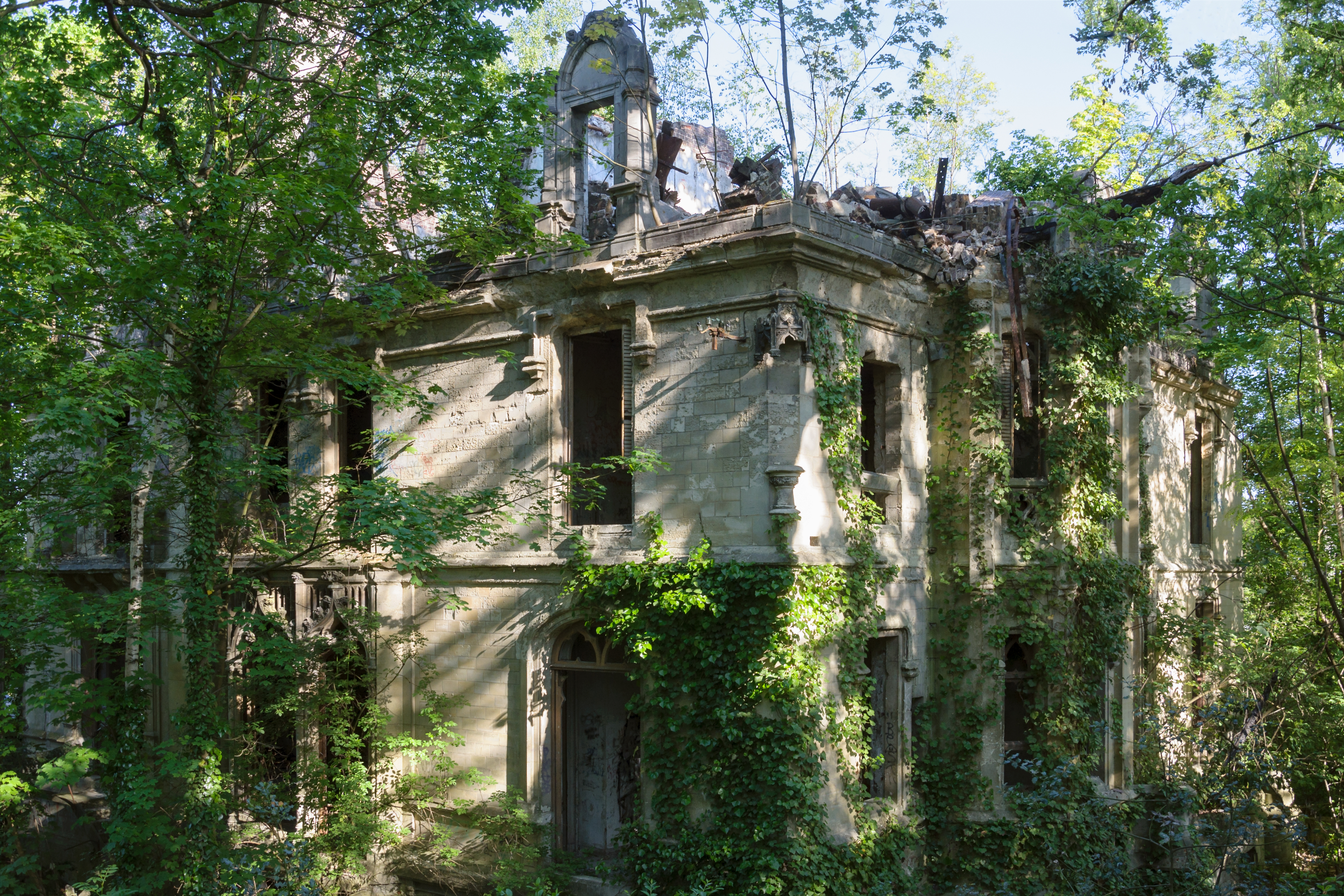 Ruins of the Château de la Solitude (“Castle of Loneliness”) in the Bois de la Solitude, Le Plessis-Robinson, Hauts-de-Seine, France.